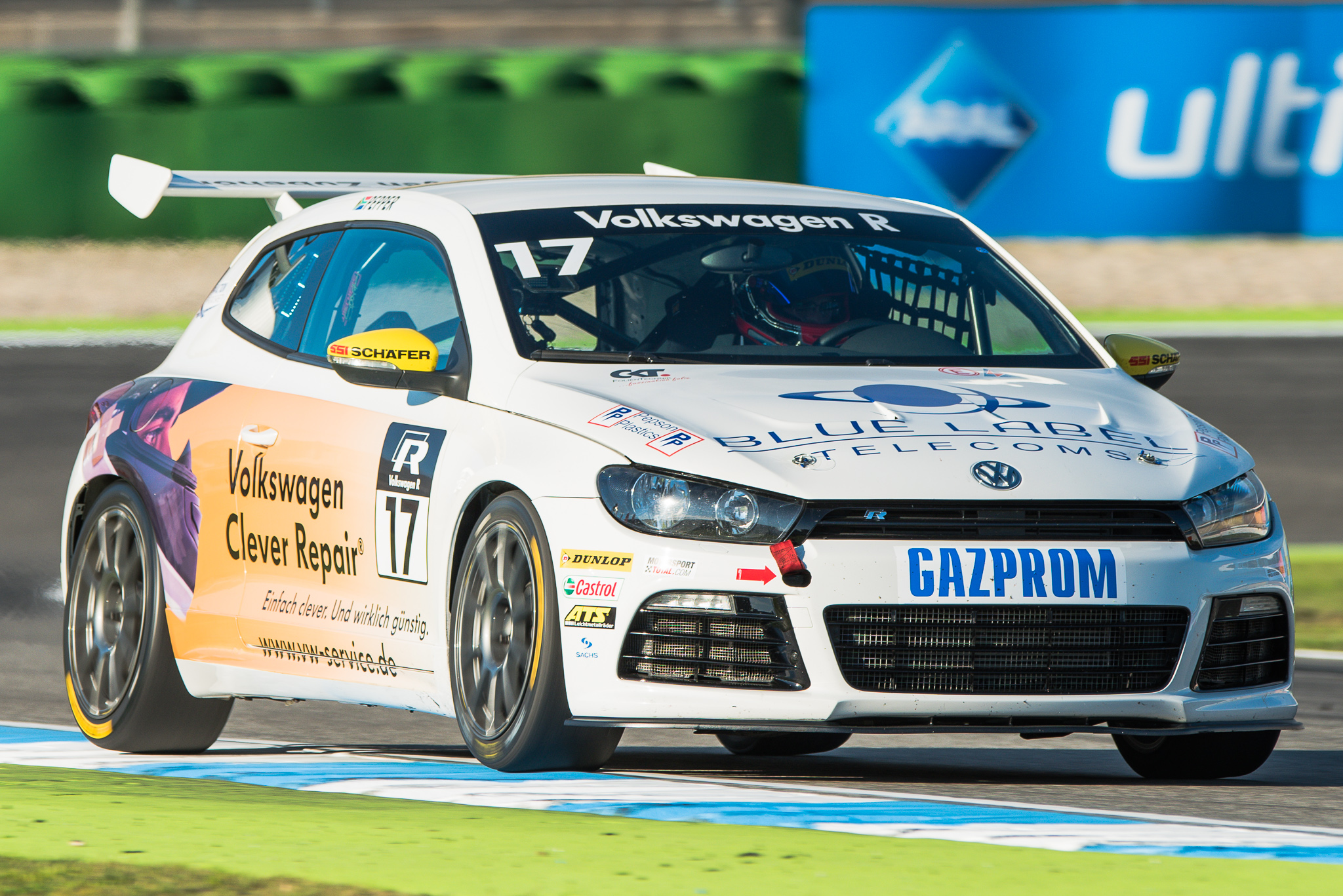 Hockenheimring,Jordan Lee Pepper,Motorsport,VW Scirocco R-Cup,Volkswagen Scirocco R-Cup